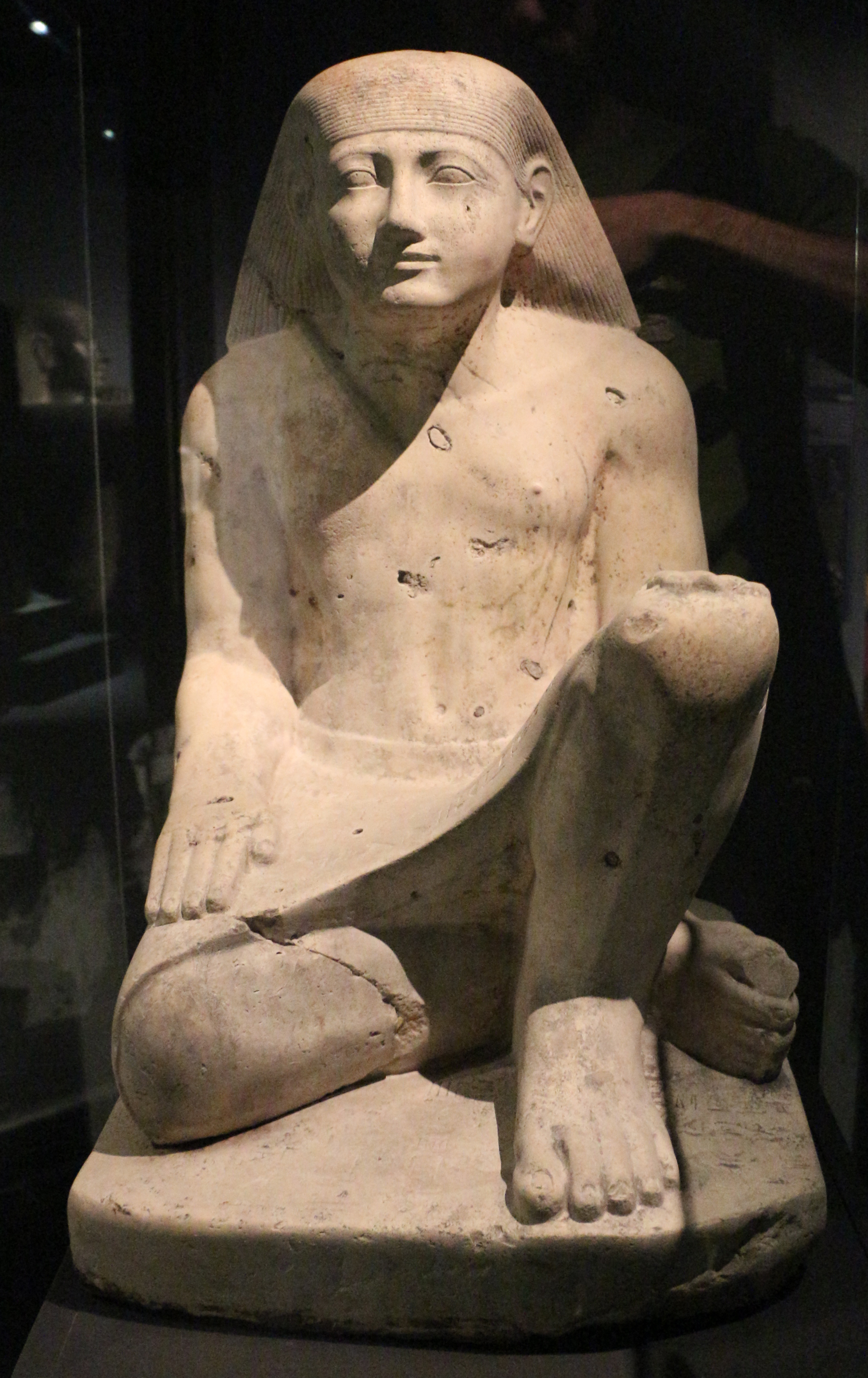 Collections of the Alexandria National Museum